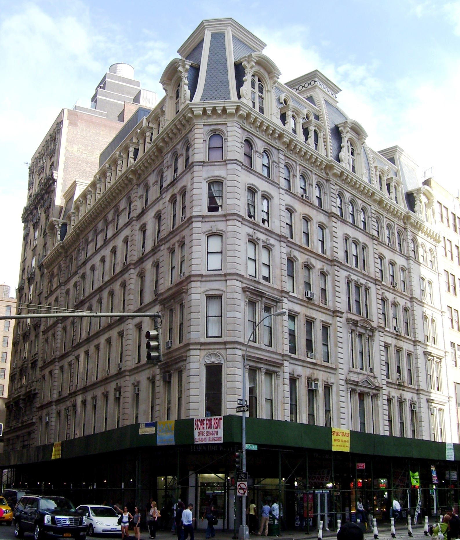 The Grand Hotel at 1232-1238 Broadway at the corner of West 31st Street in the NoMad neighborhood of Manhattan, New York City, was built in 1868 and was designed by Henry Englebert in the Second Empire style. It was desigatned at NYC landmark in 1979. (Source: Guide to NYC Landmarks)